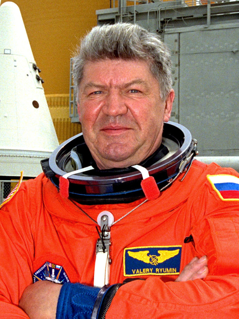 Russian Cosmonaut Valery Victorovitch Ryumin, Member of STS-91-Crew STS-91 Mission Specialist Ryumin pauses at the pad following TCDT activities STS-91 Mission Specialist Valery Ryumin, with the Russian Space Agency, pauses on the 217-foot level of Launch Complex 39A after the completion of Terminal Countdown Demonstration Test (TCDT) activities. Behind him, the Space Shuttle Discovery is being prepared for flight. The TCDT is held at KSC prior to each Space Shuttle flight to provide crews with an opportunity to participate in simulated countdown activities. STS-91 is scheduled to be launched on June 2 with a launch window opening around 6:10 p.m. EDT. The mission will feature the ninth Shuttle docking with the Russian Space Station Mir, the first Mir docking for Discovery, the conclusion of Phase I of the joint U.S.- Russian International Space Station Program, and the first flight of the new Space Shuttle super lightweight external tank. The STS-91 flight crew also includes Commander Charles Precourt; Pilot Dominic Gorie; and Mission Specialists Wendy B. Lawrence; Franklin Chang-Diaz, Ph.D.; and Janet Kavandi, Ph.D. Andrew Thomas, Ph.D., will be returning to Earth with the crew after living more than four months aboard Mir.